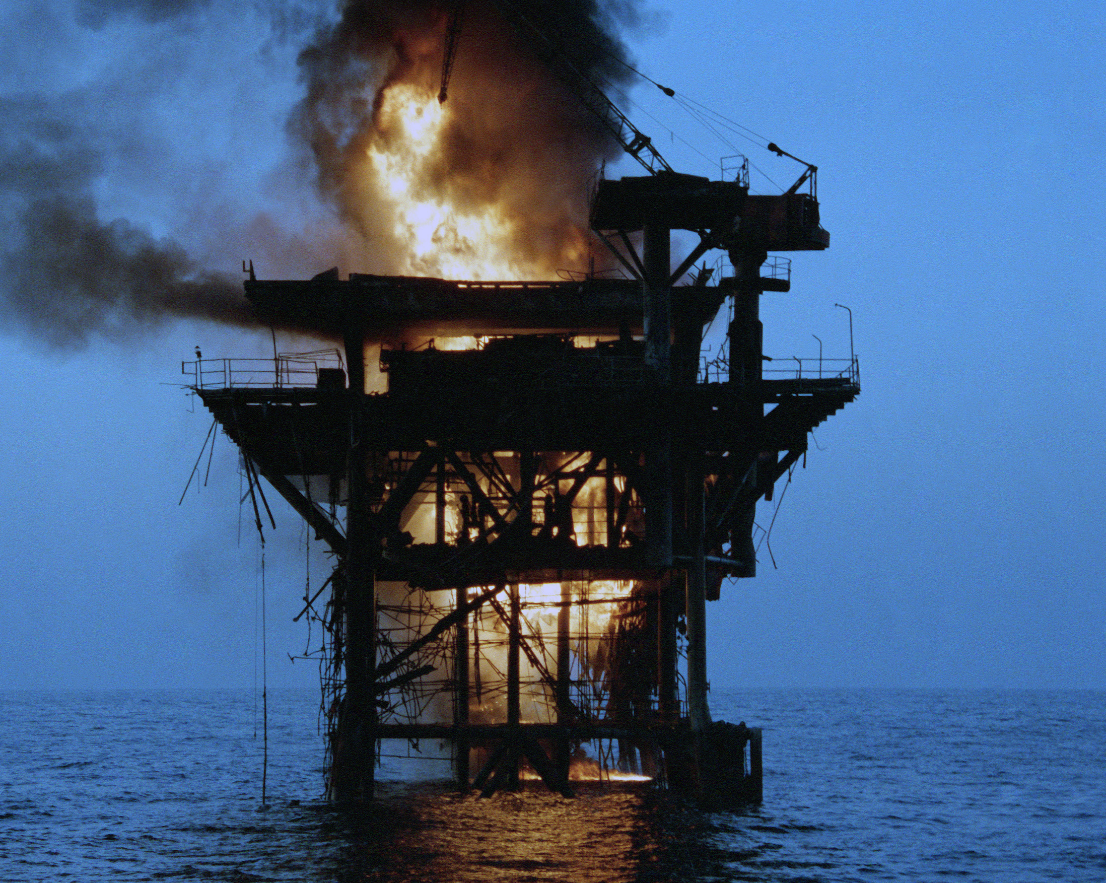 An Iranian oil platform, Rostam, is set afire after being shelled by four US Navy destroyers during Operation Nimble Archer. The shelling was a response to an alleged recent Iranian missile attack on a reflagged Kuwaiti super tanker. ID: DN-SC-88-01042